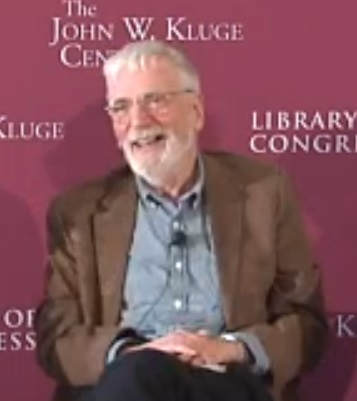 American evolutionary biologist W. Ford Doolittle at the John W. Kluge Center at the Library of Congress in 2016 on The Origins of the RNA World. Nathaniel Comfort convenes four distinguished scientists on-stage for a live oral history interview about the origins of the RNA world, the world at the dawn of life, before DNA, arising nearly four billion years ago.